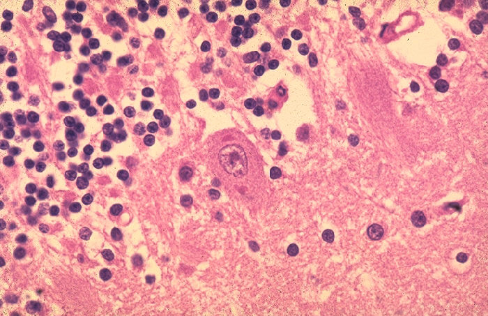 Histopathology of rabies, brain. Characteristic Negri bodies are present within a Purkinje cell of the cerebellum in this patient who died of rabies.